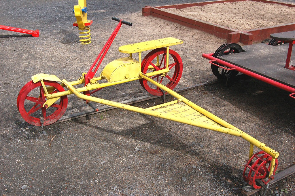 Light-weight three-wheel draisine at childrens' playground in Oulu, Finland.